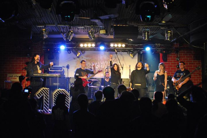 Picture taken by a fan on Stormy Atmosphere 10 Anniversary show.